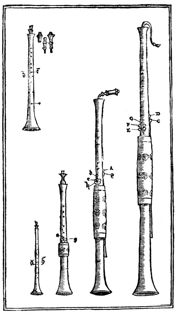 A shawn.